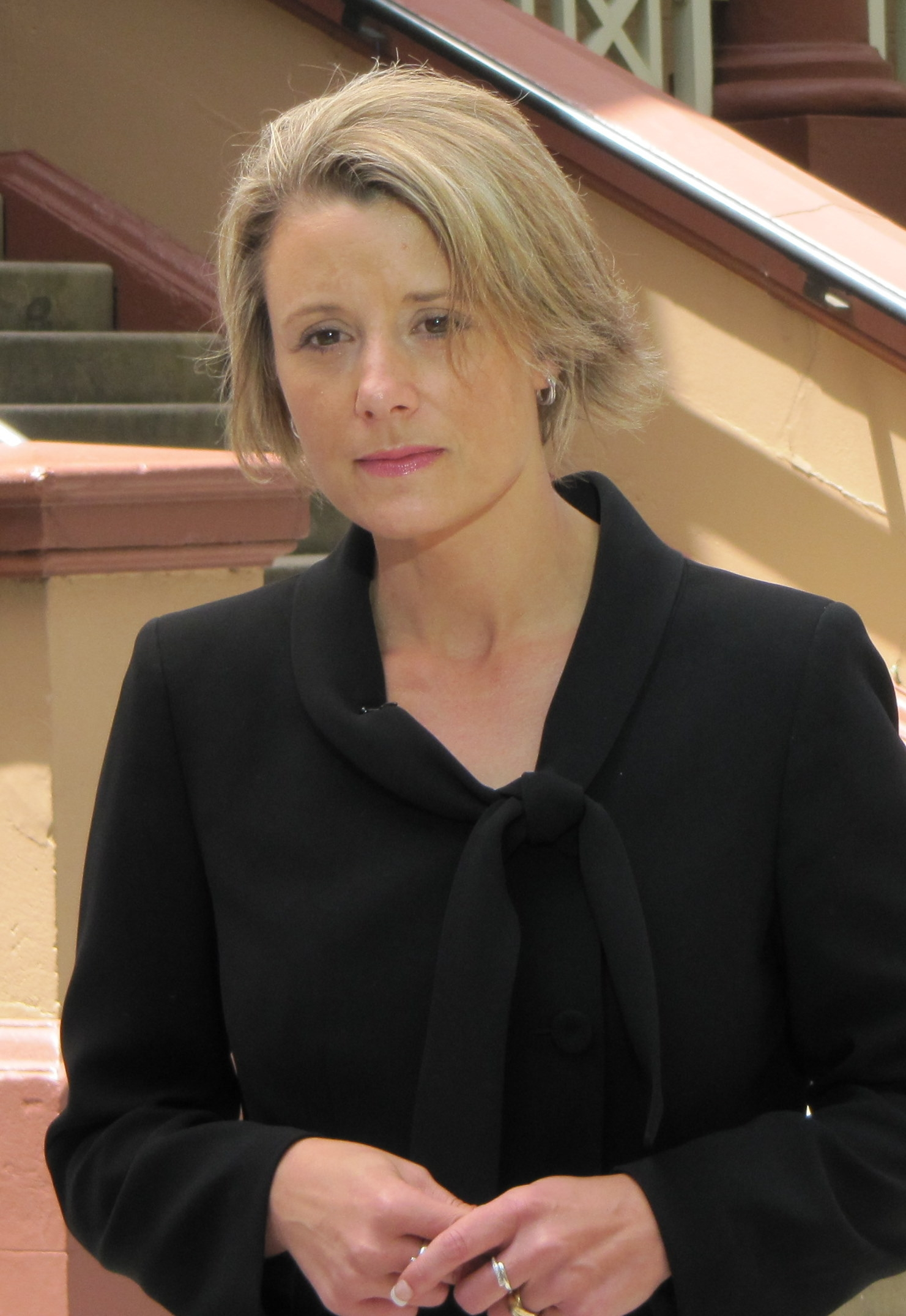 My picture of Premier Kristina Keneally, I happened to see her whilst I was walking past Parliament House in Sydney on December 4th 2009 shortly before she went to Government House to be sworn in as New South Wales' first female Premier. Not too bad a shot for an amateur.